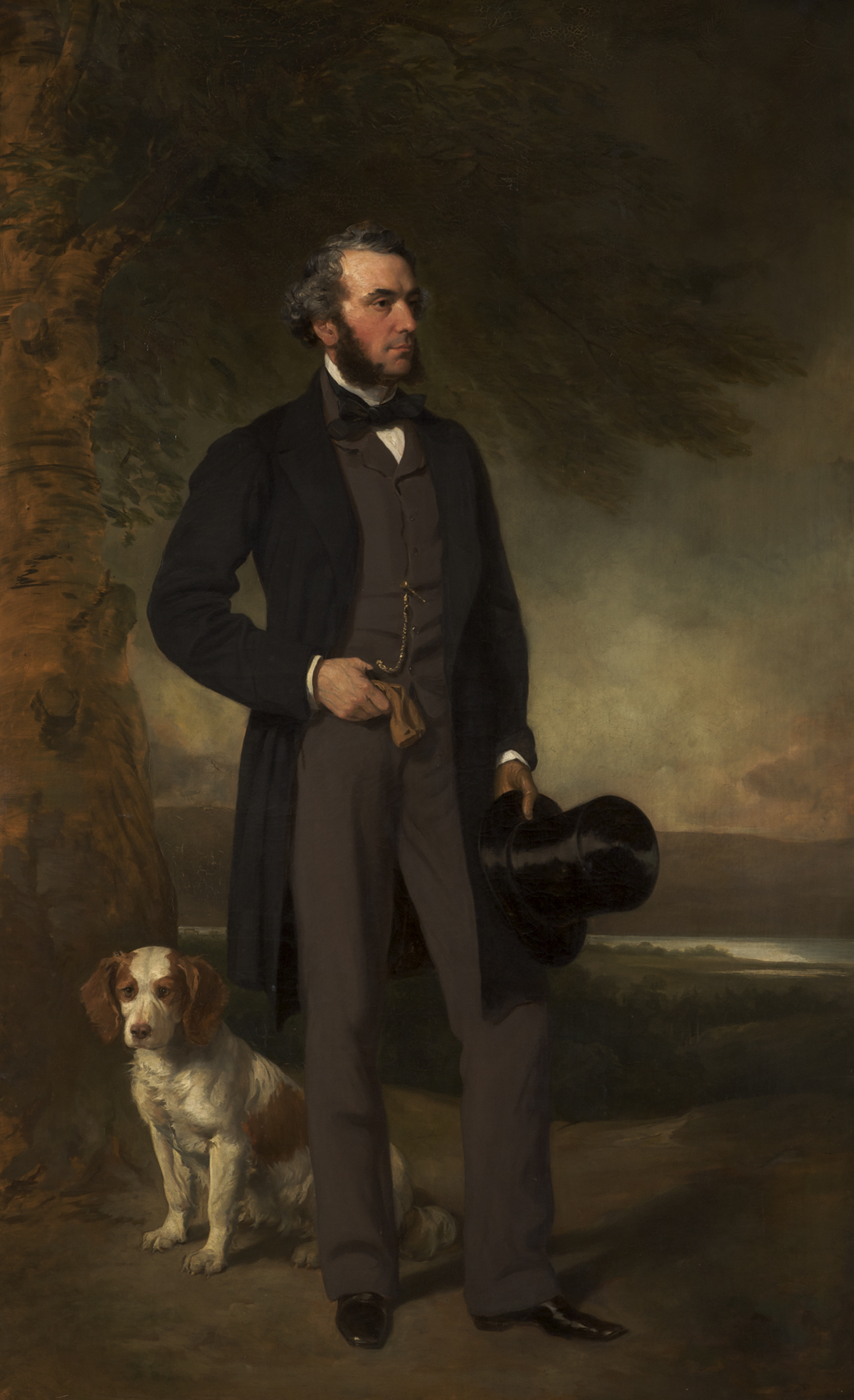 John Hick, Esq., JP, Member of Parliament for Bolton (1868–1880)